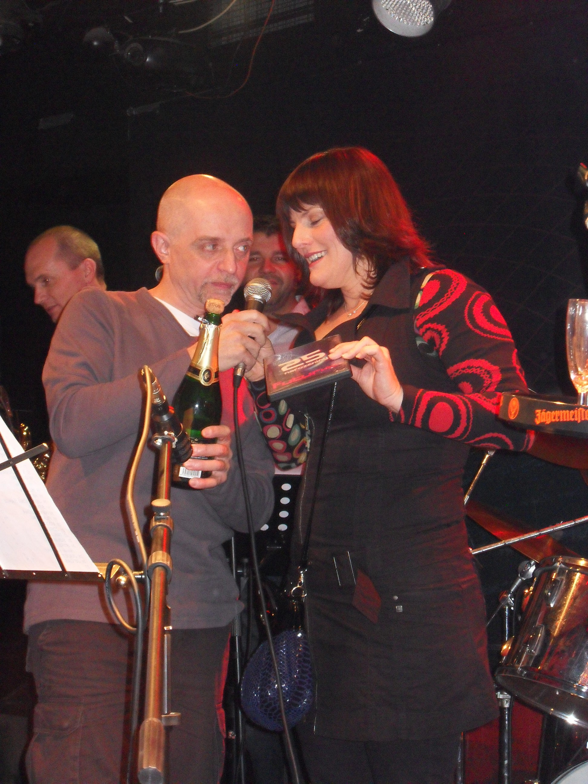 Baptism of DVD 25. narozeniny of Czech band Futurum (Roman Jež and Daria Hrubá), Brno, Czech Republic